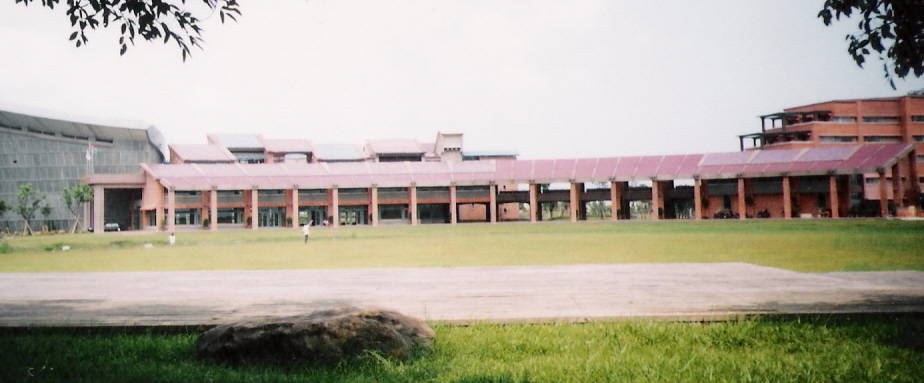 Yilan County Institution , Taiwan